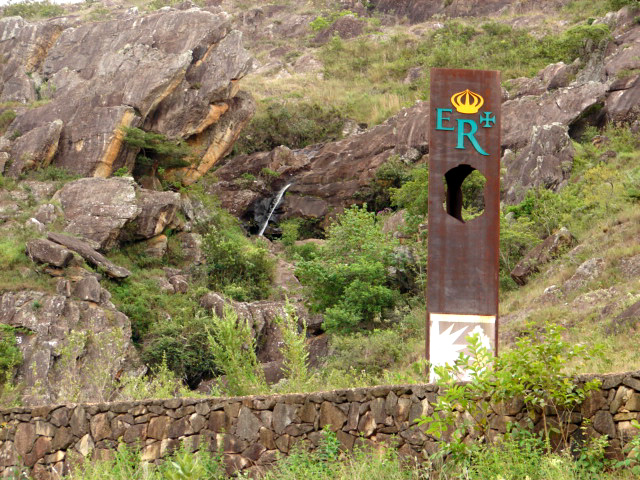 Royal Road mark near waterfall between Tiradentes and São João del Rei Taken by Ricardo ((WT-shared) Rmx) in March 2006.